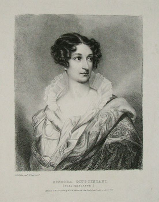 Signora Giustiniani. (Nata Camporese.)Published as the Act directs by Mr. F.W. Wilkin 106 New Bond Street, London.__April 1826.Lithograph on india laid paper, india 320 x 255mm. 12½ x 10". Violante Camporese (1785 - 1839), soprano singer and actress, After Francis William Wilkin (c.1792 - 1842) by Maxim Gauci a Lithographer born in Malta, father of Paul Gauci and William Gauci who settled in London in 1809 building up a very fine business and reputation which the sons then continued.